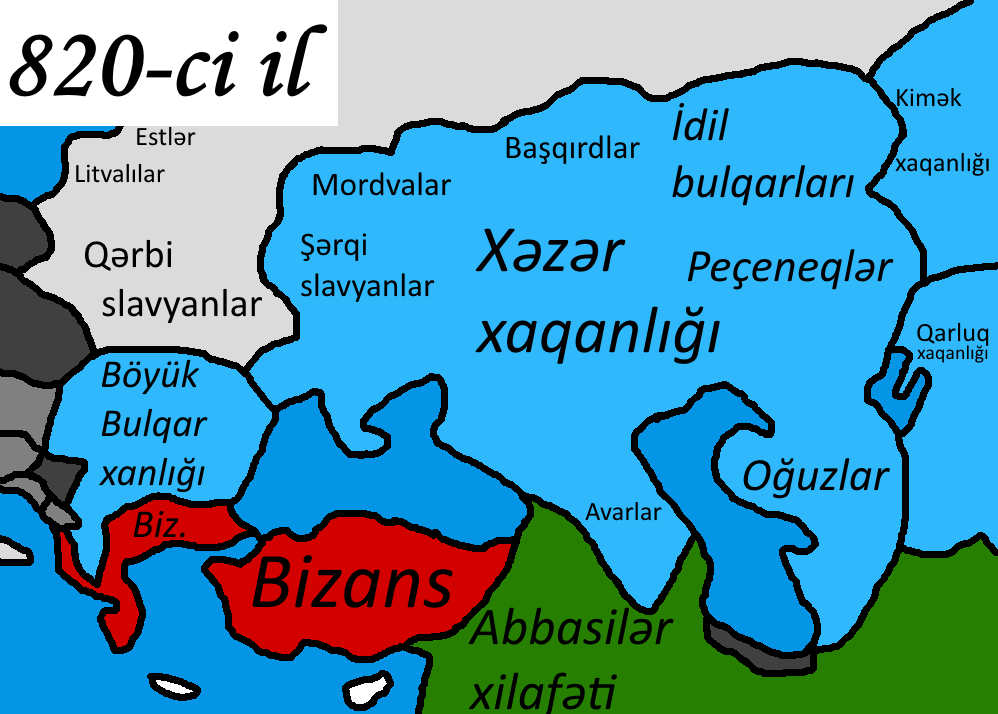 Map of the Khazar Khaganate in the year 820 (in Azerbaijani)